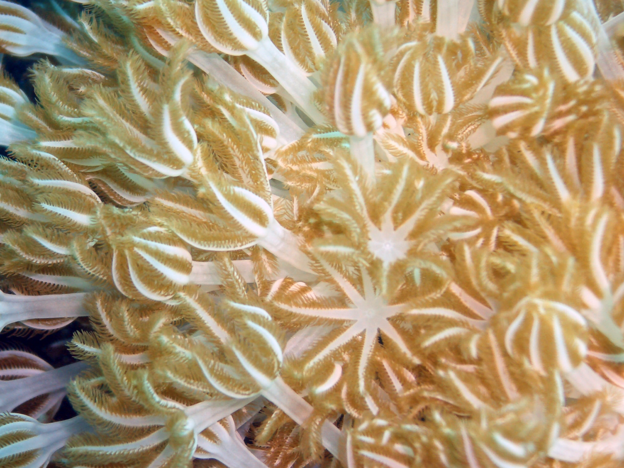 Flower Soft Coral at Lembeh Strait, North Sulawesi. Each of the feather-like feeding tentacles displays a beautiful fluidic movement of feeding on plankton